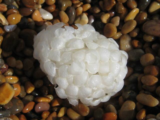 Egg cases - Common Whelk Empty egg cases of the Common Whelk (buccinum undatum) are frequently found on the Chesil bank from this time of year on through the summer months. The Common Whelk is the largest of the Uk's seasnails, indigenous all around our coast. The eggs are laid on rocks in the winter months. The baby whelks hatch and start eating the egg cases of their neighbours which have not yet hatched. The empty adult shell is much sought after by the hermit crab in which to make its home.